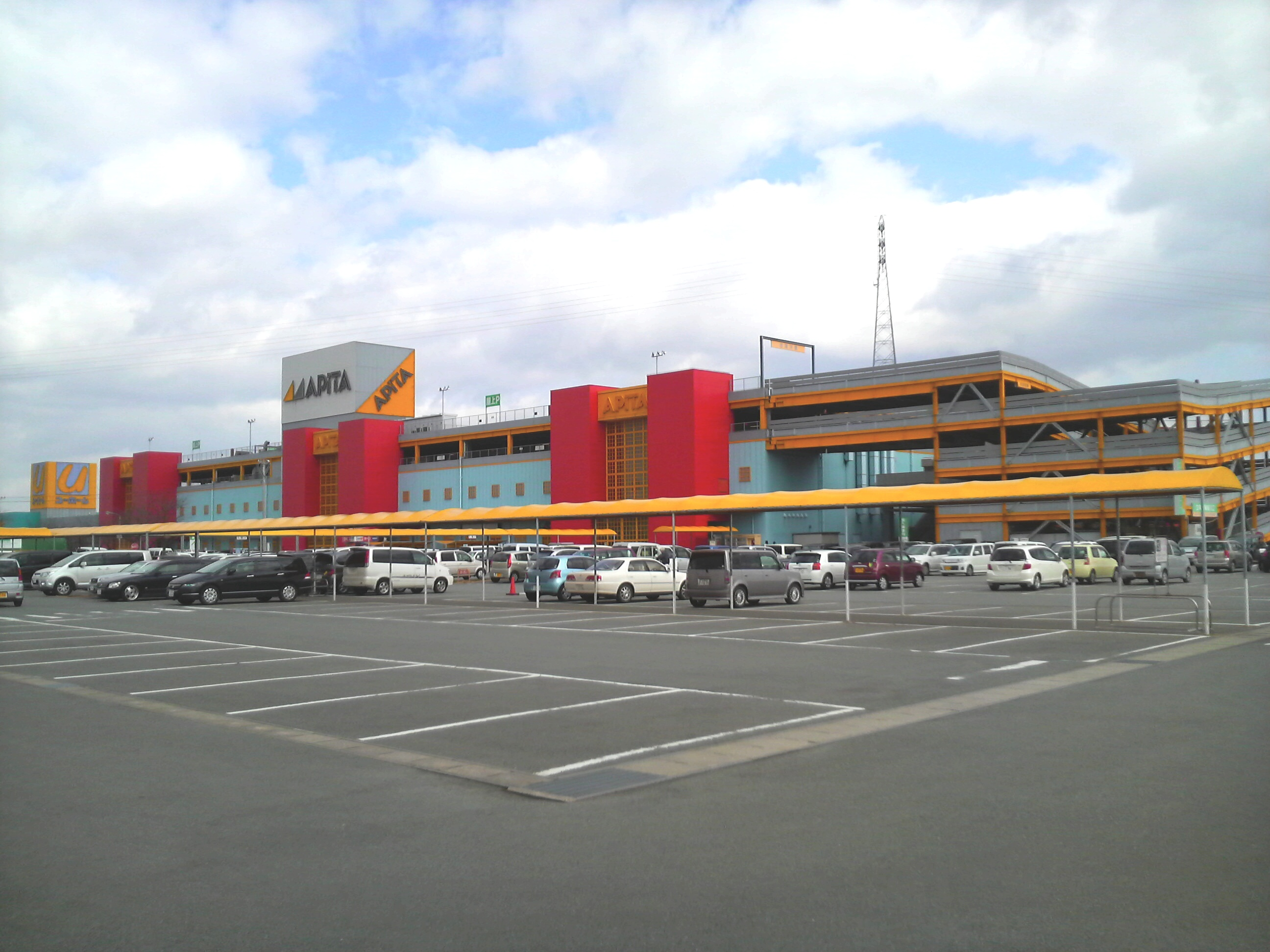 The "APiTA Matsusaka-Mikumo" Shopping mall in Matsusaka city, Mie Prefecture, Japan.